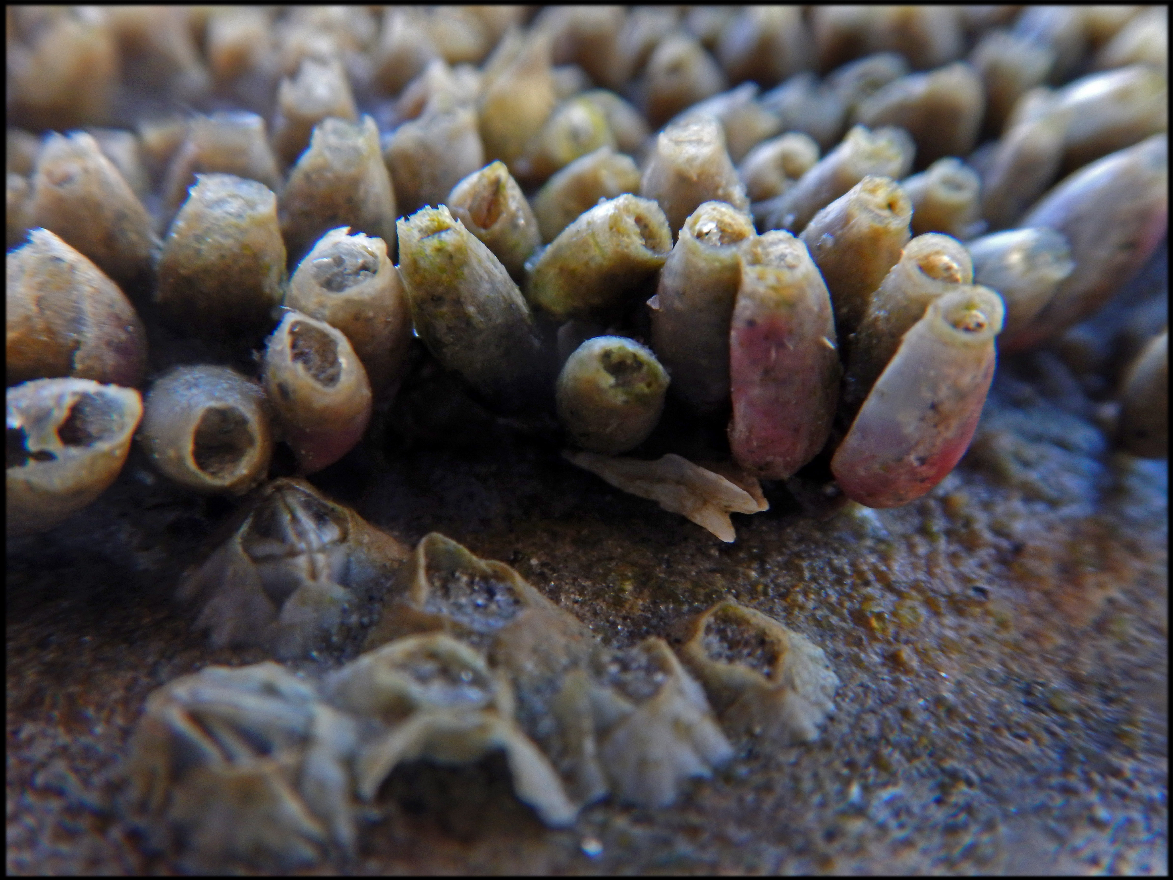 Ovigerous capsules (each containied several eggs) of gastropods Nucella lapillus, photographed at low tide on the foreshore in Wimereux (northern France) mid 2016